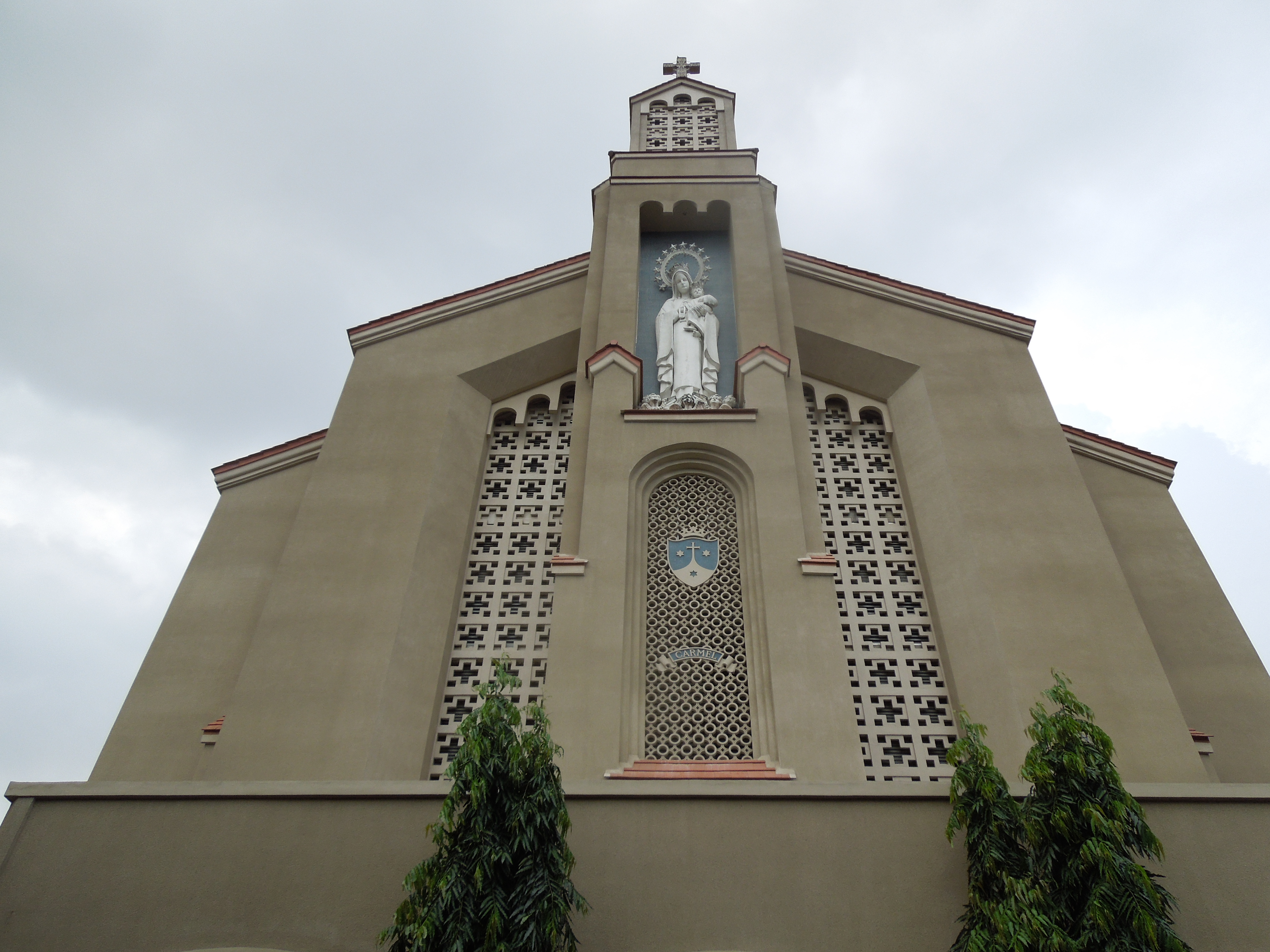 National Shrine and Parish of Our Lady of Mount Carmel (Dona Juana Rodriquez Avenue, formerly Broadway Ave., New Manila, Quezon City) Shrine 14°36'51"N 121°1'49"E under the Discalced Carmelite Fathers by Anglo-Irish Carmelites, the cornerstone of the Shrine was laid on December 30, 1954, inaugurated on July 16, 1964 Vicariate of the Holy Family Carmel Shrine in Cubao declared pilgrimage site November 20th, 2012 National Shrine (Note: Judge Florentino Floro, the owner, to repeat, Donor Florentino Floro of all these photos hereby donate gratuitously, freely and unconditionally all these photos to and for Wikimedia Commons, exclusively, for public use of the public domain, and again without any condition whatsoever).